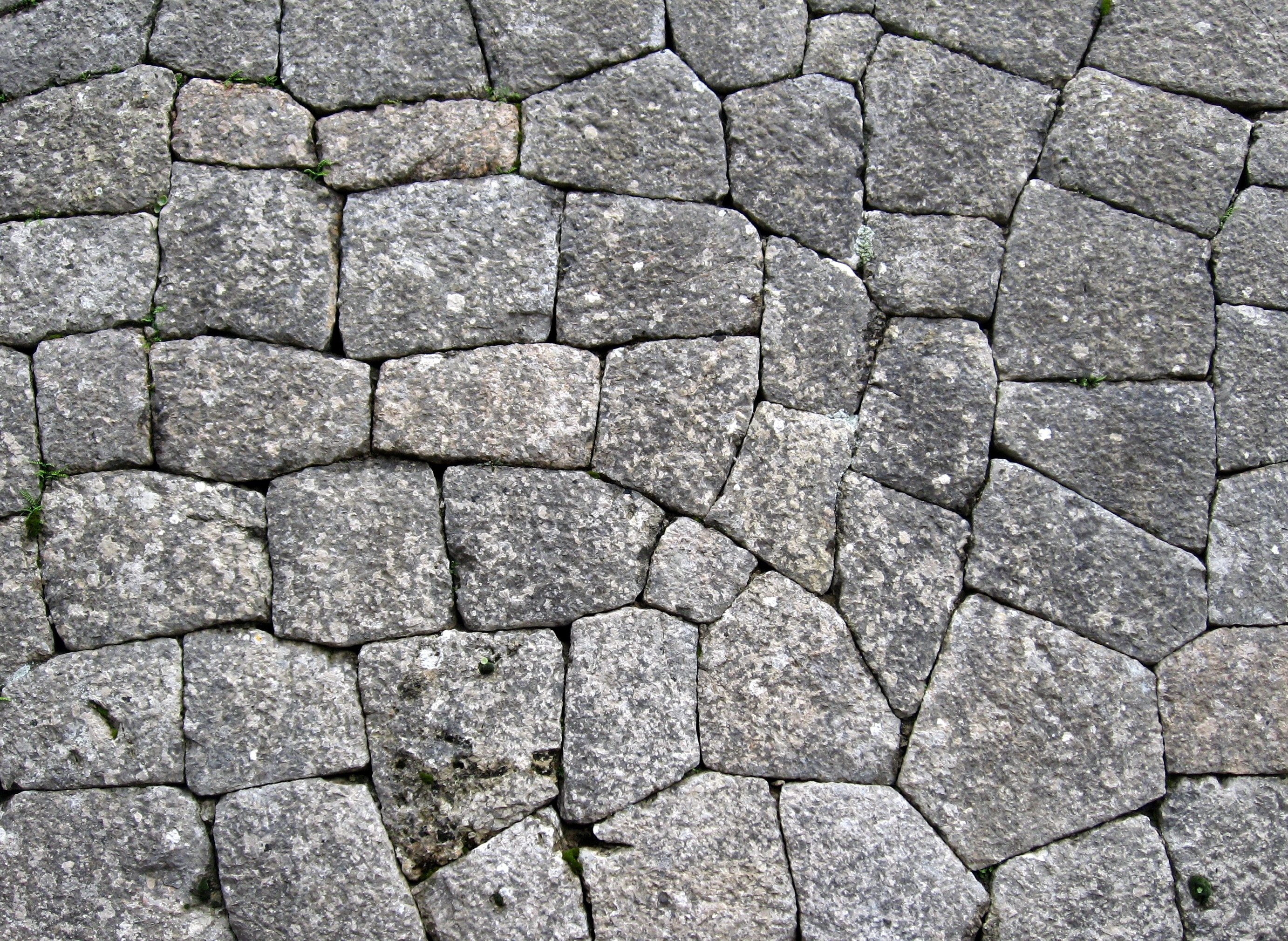 Stone wall, Mallorca